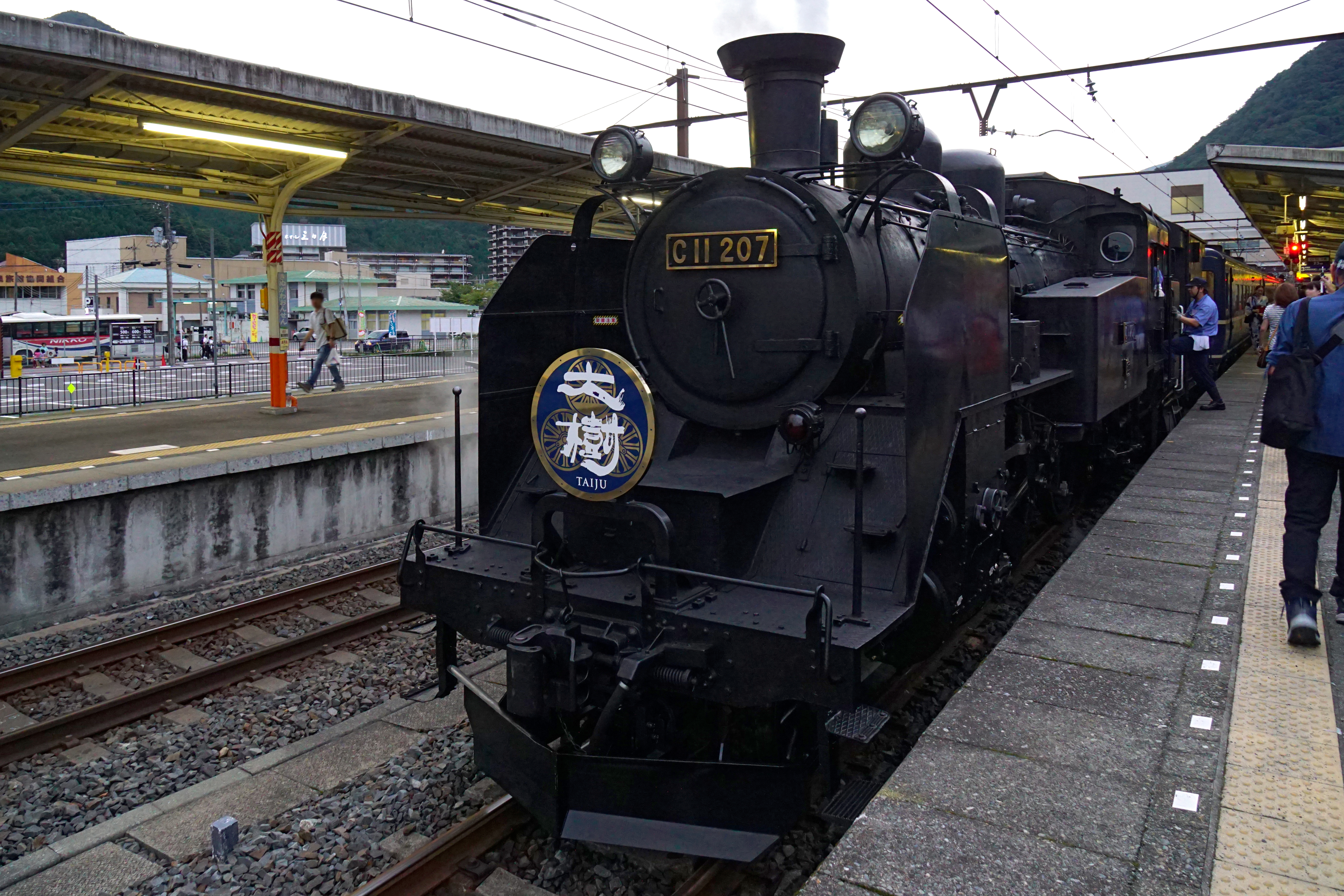 Tobu Class C11 steam locomotive C11 2017 on a Taiju service at Kinugawa-Onsen Station in Nikko, Tochigi prefecture, Japan